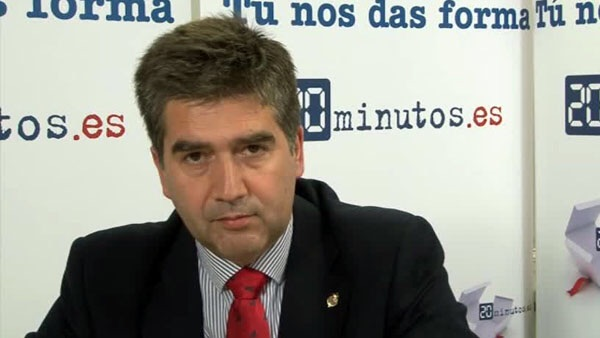 Ignacio Cosidó at an interview in 20 minutos.